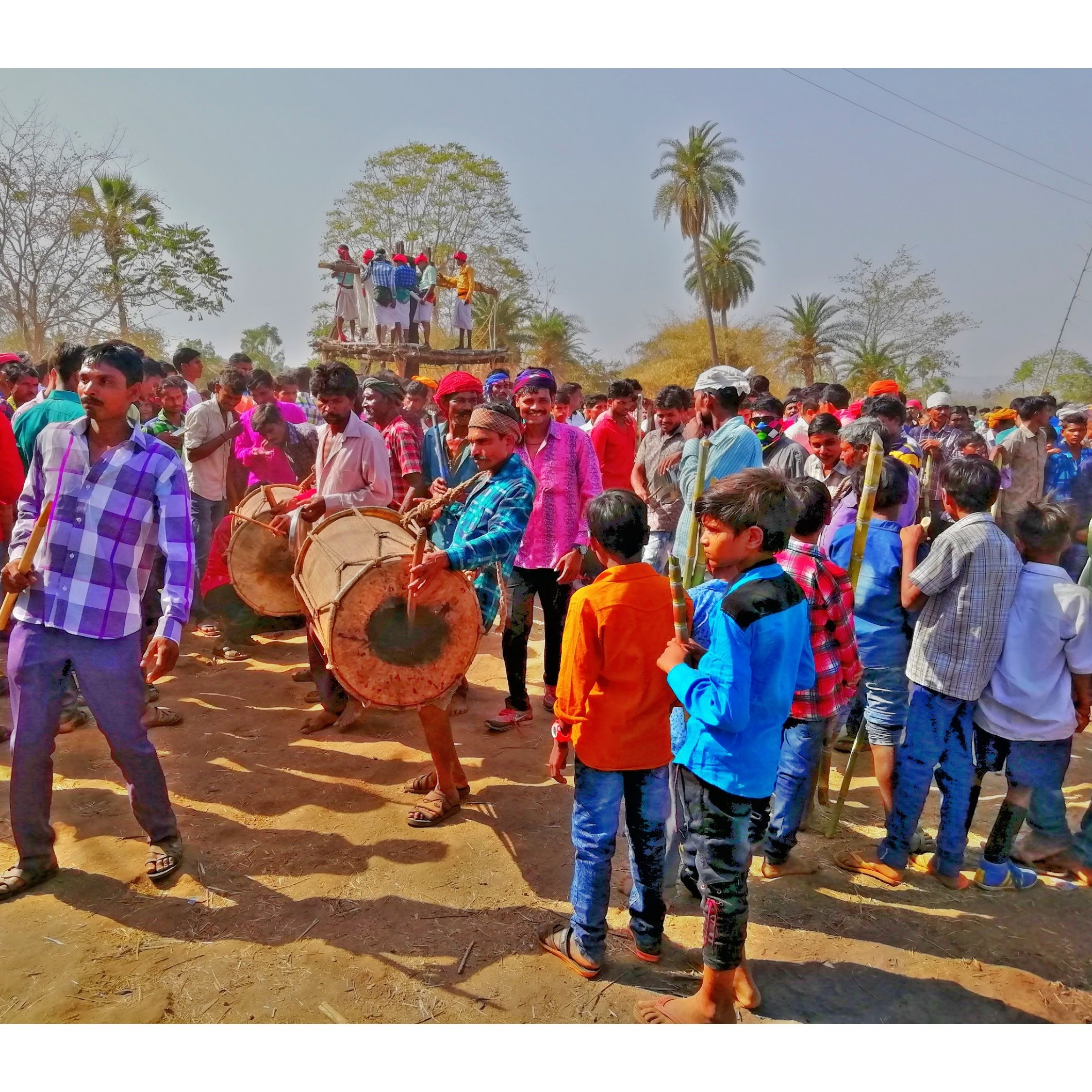 This is our aadiwasi tribal bhagoriya festival ,alirajpur mp india This photo has been taken in the country: India